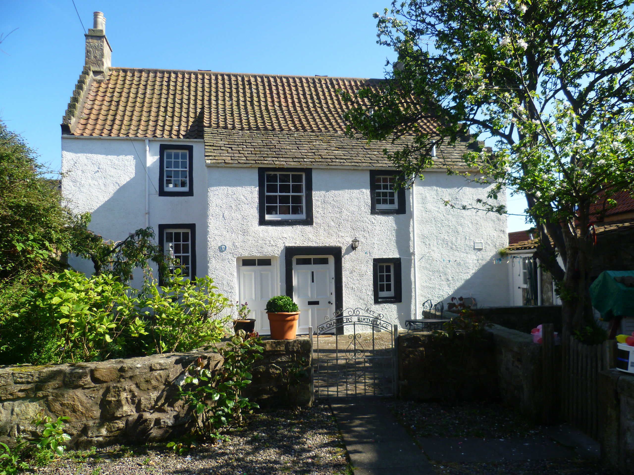 Thomas Chalmers' birthplace, Old Post Office Close, Anstruther